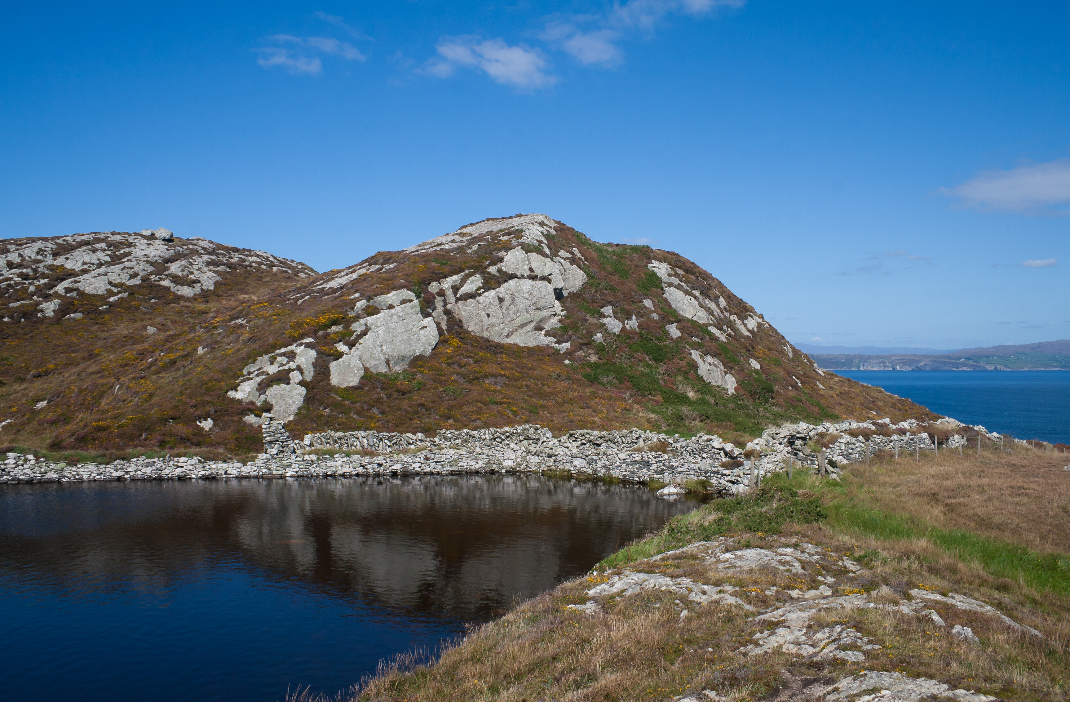 Fortification wall of the promontory fort at Dun Lough.